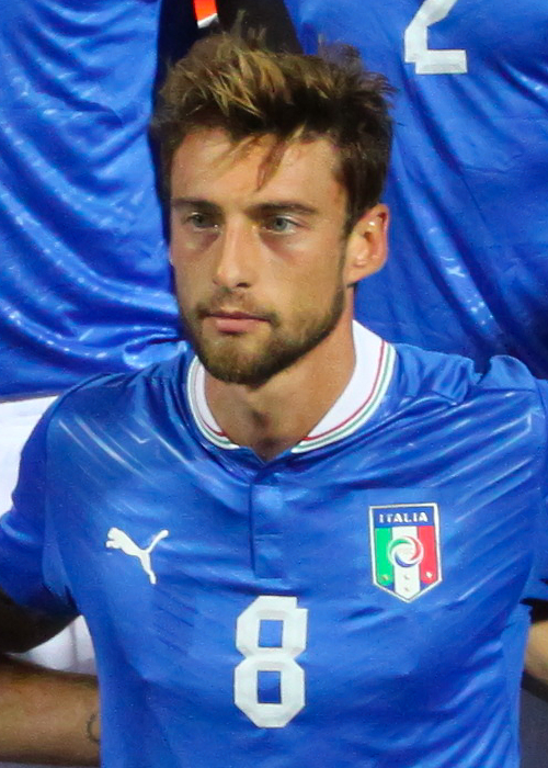 Claudio Marchisio before the football game with Bulgaria, "Vasil Levski" stadium, Sofia, Bulgaria, September 7, 2012